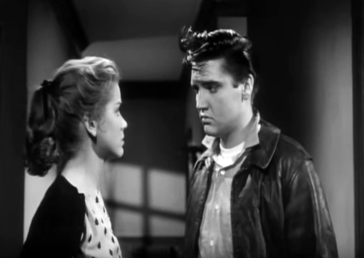 Elvis Presley and Dolores Hart from the trailer for the film King Creole, 1958